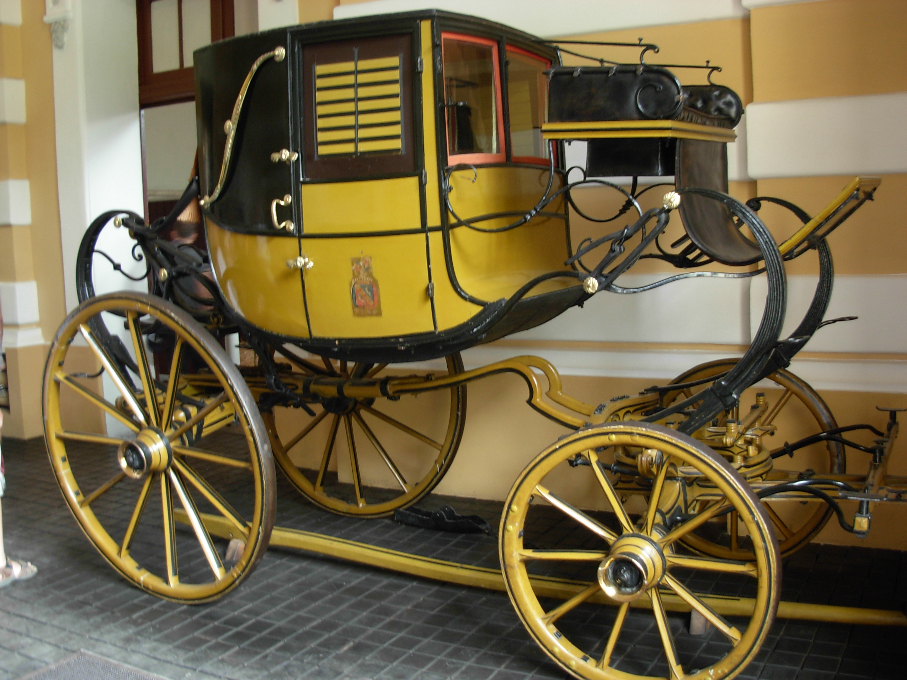 Łańcut Castle and neighbourhood. Many photos courtesy of Łańcut Museum staff.